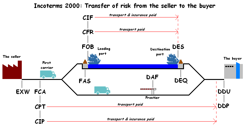 Incoterms - Transfer of risk from the seller to the buyer